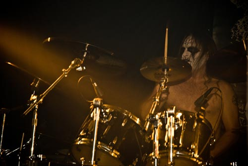 Inquisition, live at Hole In The Sky, Bergen Metal Fest 2008